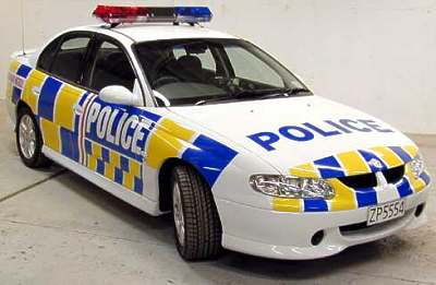 New Zealand Police highway patrol car (2000–2002 Holden VX Commodore S sedan).